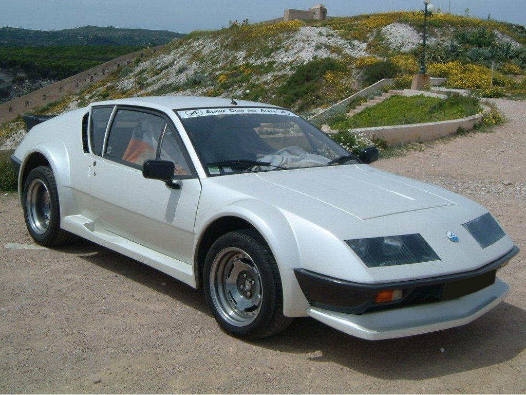 An Alpine A310 (NOT Renault, despite my mis-naming the file) in Corsica.